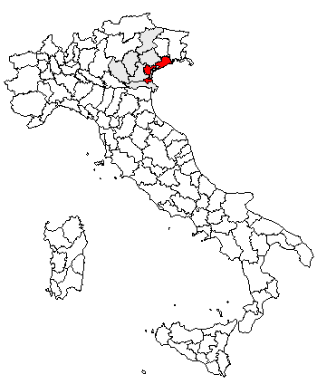 Locator map of the province of Venice, in Italy.